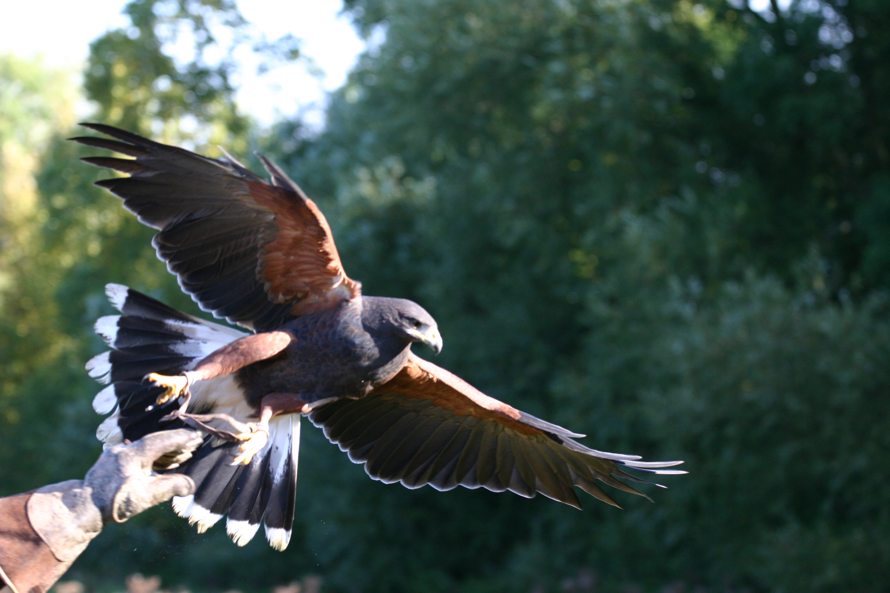 A six-year-old female Harris' Hawk (Parabuteo unicinctus) taking off.